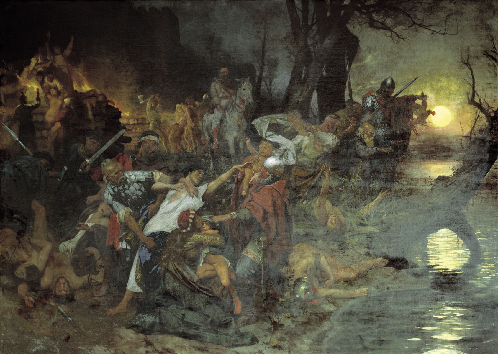 Svyatoslav's Warriors in the Battle of Silistria. )